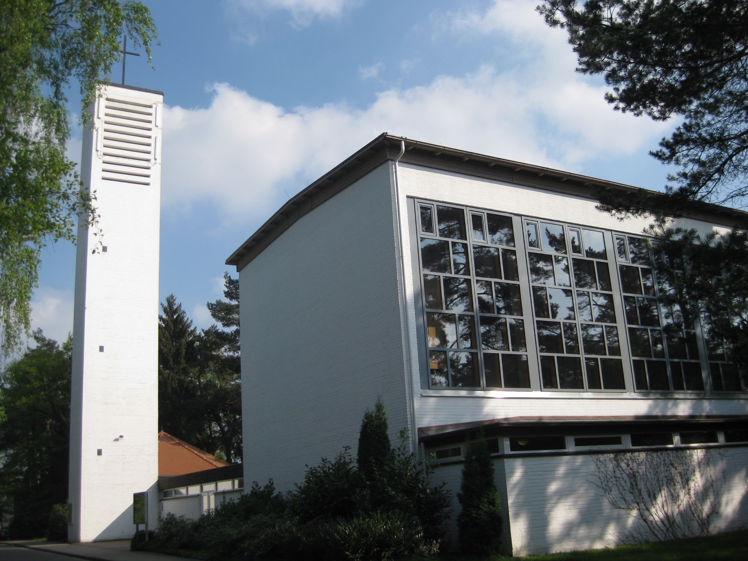 lutheran parish church Friedenskirche in Bielefeld-Senne. Am 15.9.1951 konnte die von der KG Brackwede erbaute Friedenskirche eingeweiht werden, 1958–2005 bildeten Mitglieder eine eigene Kirchengemeinde, seither fusioniert mit den Kirchengemeinden von Christus- und Lutherkiche zur Emmaus-Gemeinde.